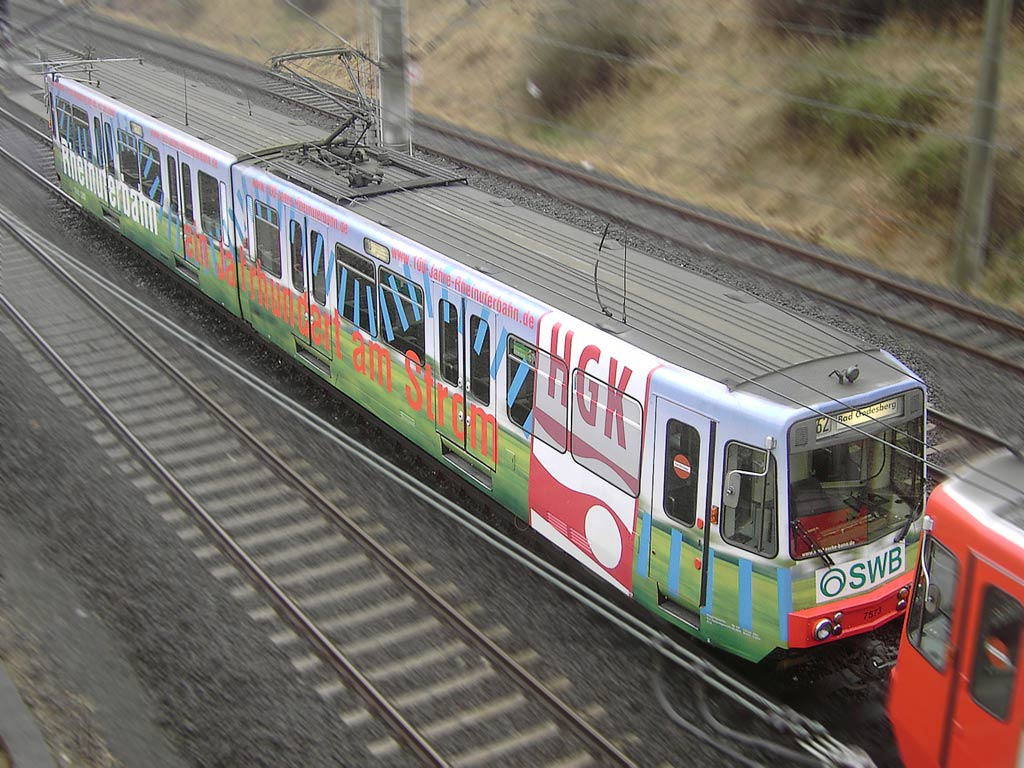 Bonn LRV 7573